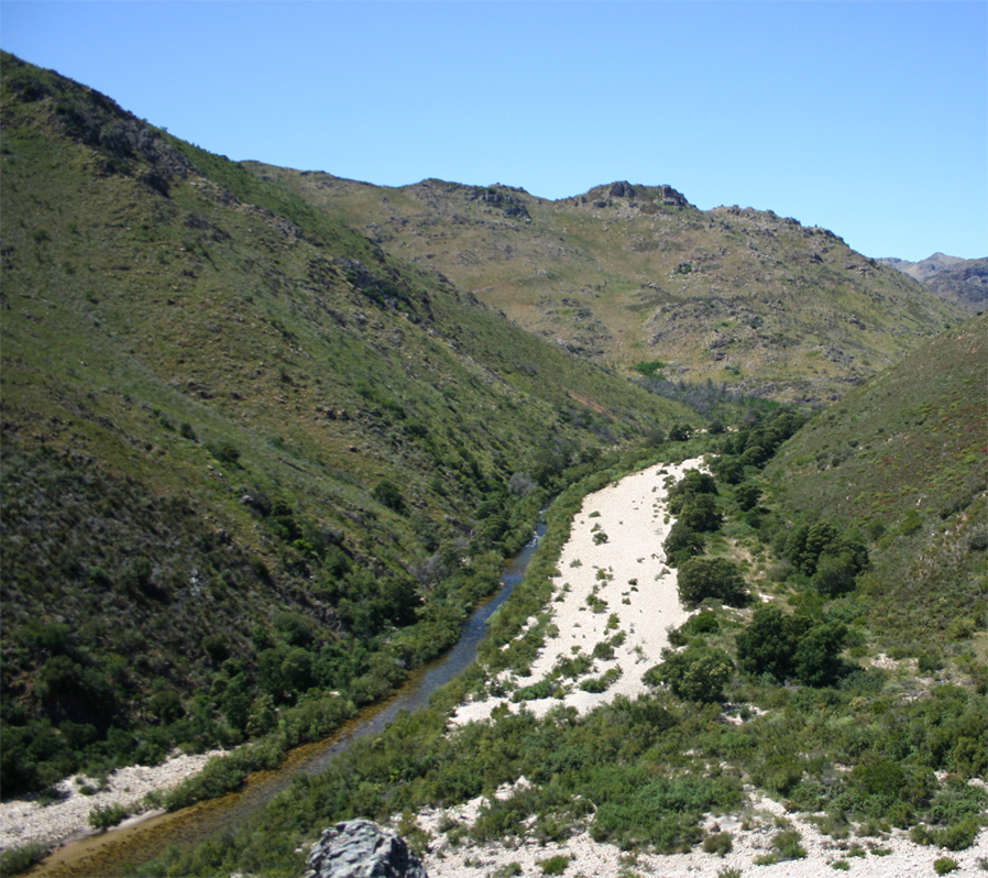 This is a picture of the Olifants River as it runs through the Cederberg mountains a couple kilometers upstream from Citrusdal.